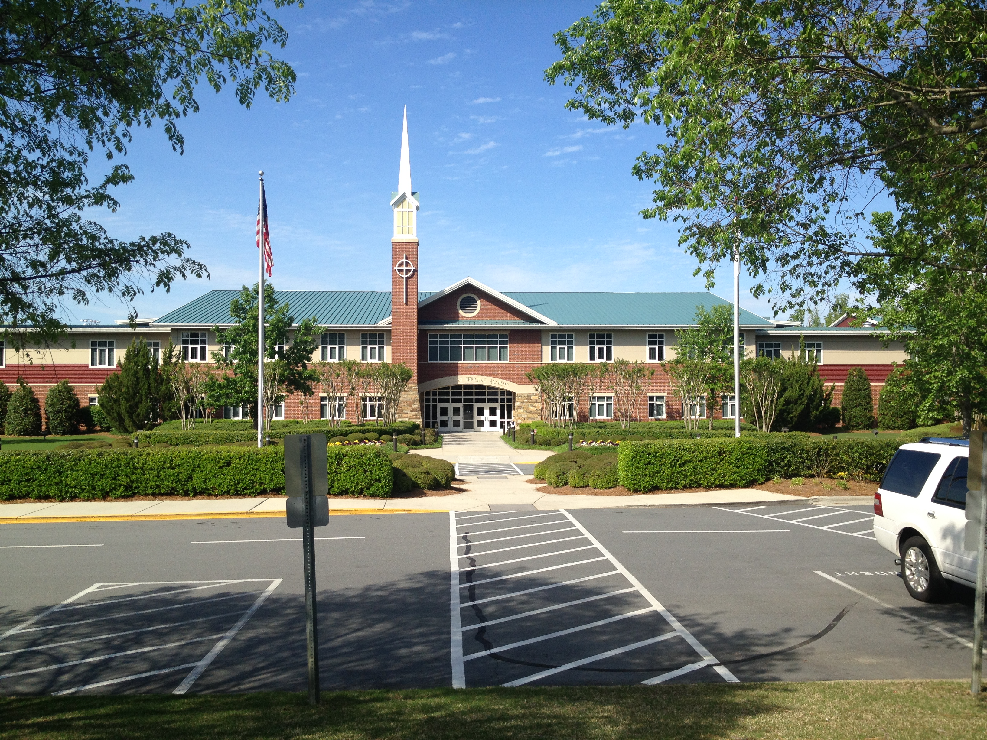 View of North Raleigh Christian Academy from the front parking lot.